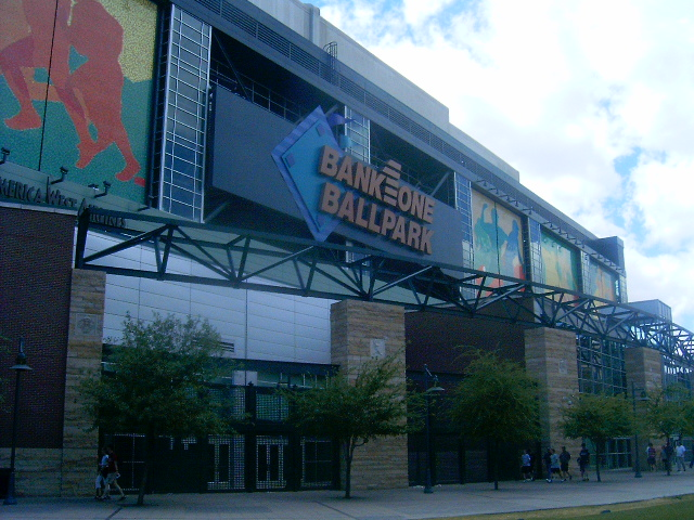 Bank One Ballpark in Phoenix, Arizona on April 24, en:2005; prior to a San Diego Padres at Arizona Diamondbacks baseball game.